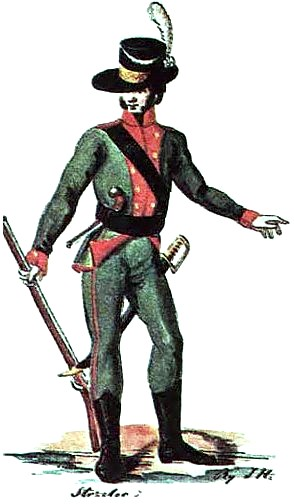 Sniper of 1st Regiment of Grand Bulawa of Lithuania in 1792